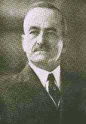 Mayor Andrew J. McShane of New Orleans. Photo c. 1920